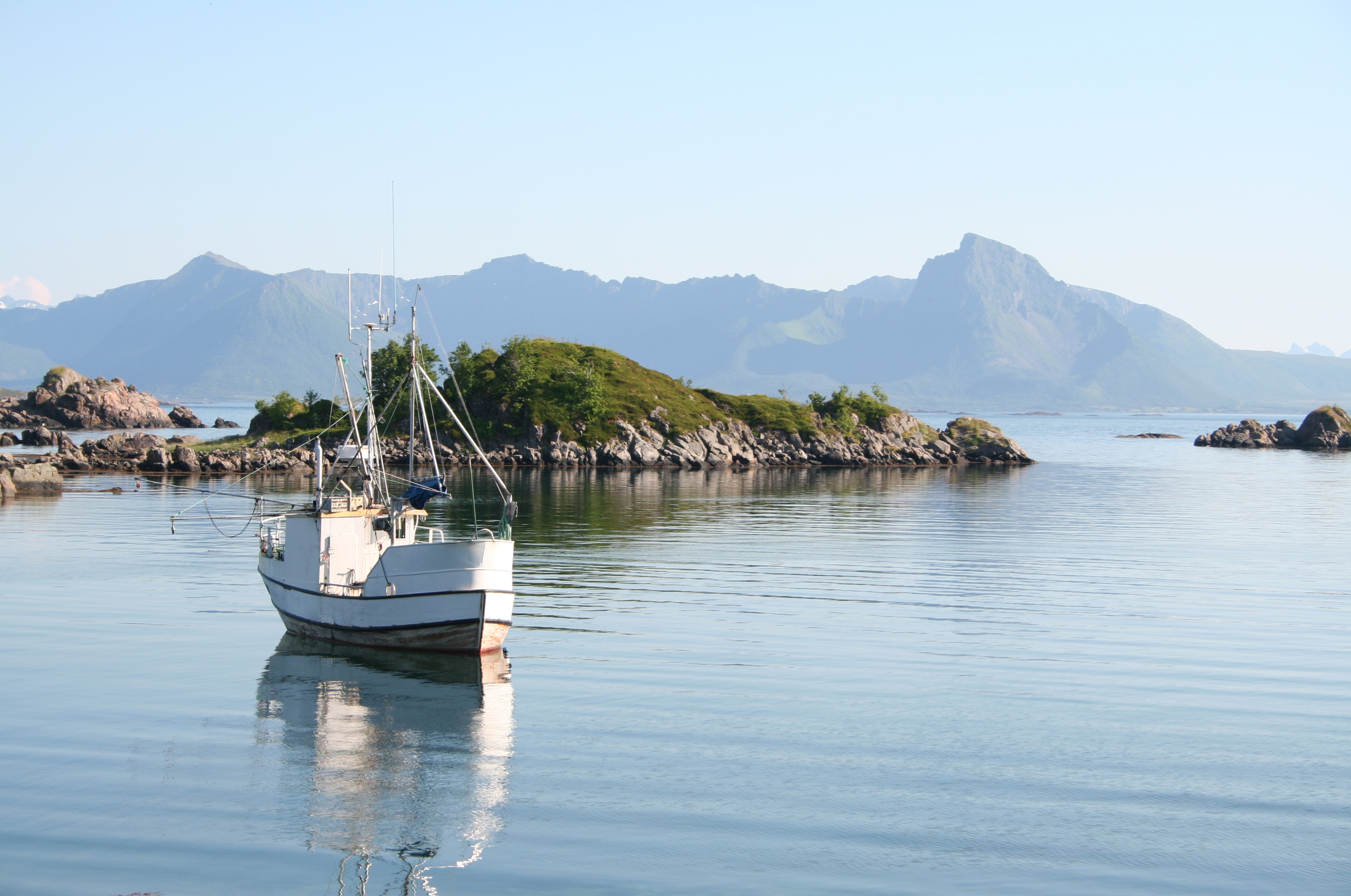 Fishing boat in Guvåg, Bø (Nordland), Norway